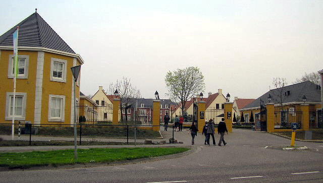 Valkenburg, the Netherlands. View of Landal Resort, a holiday resort on top of Cauberg.